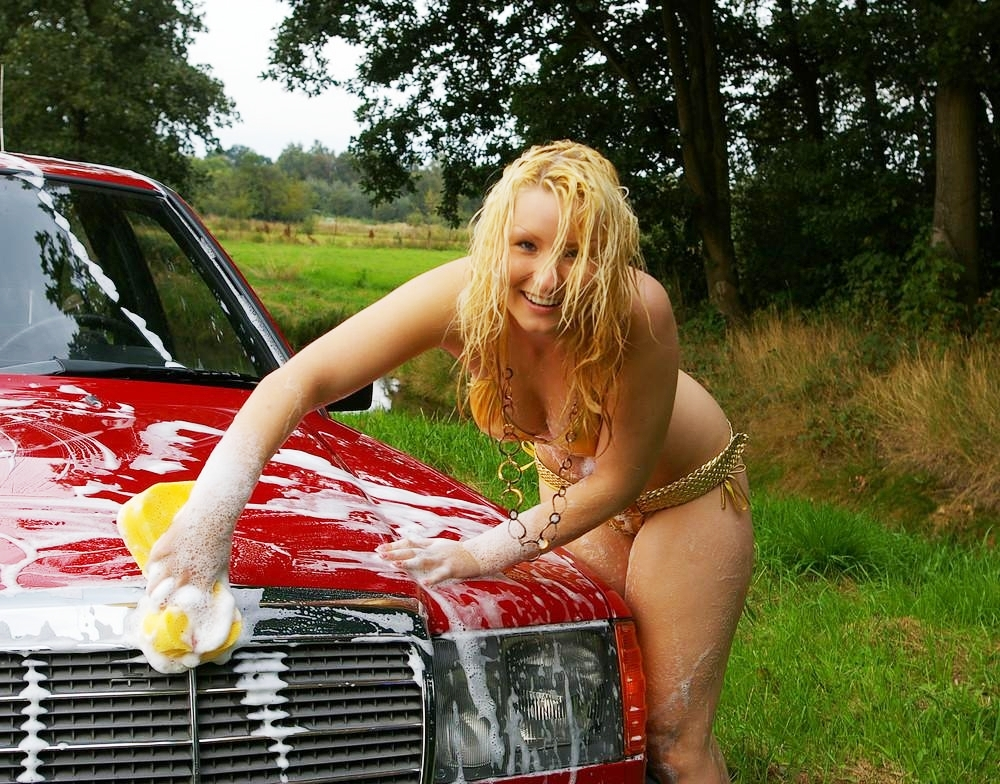 Car wash with a blonde girl in a golden bikini